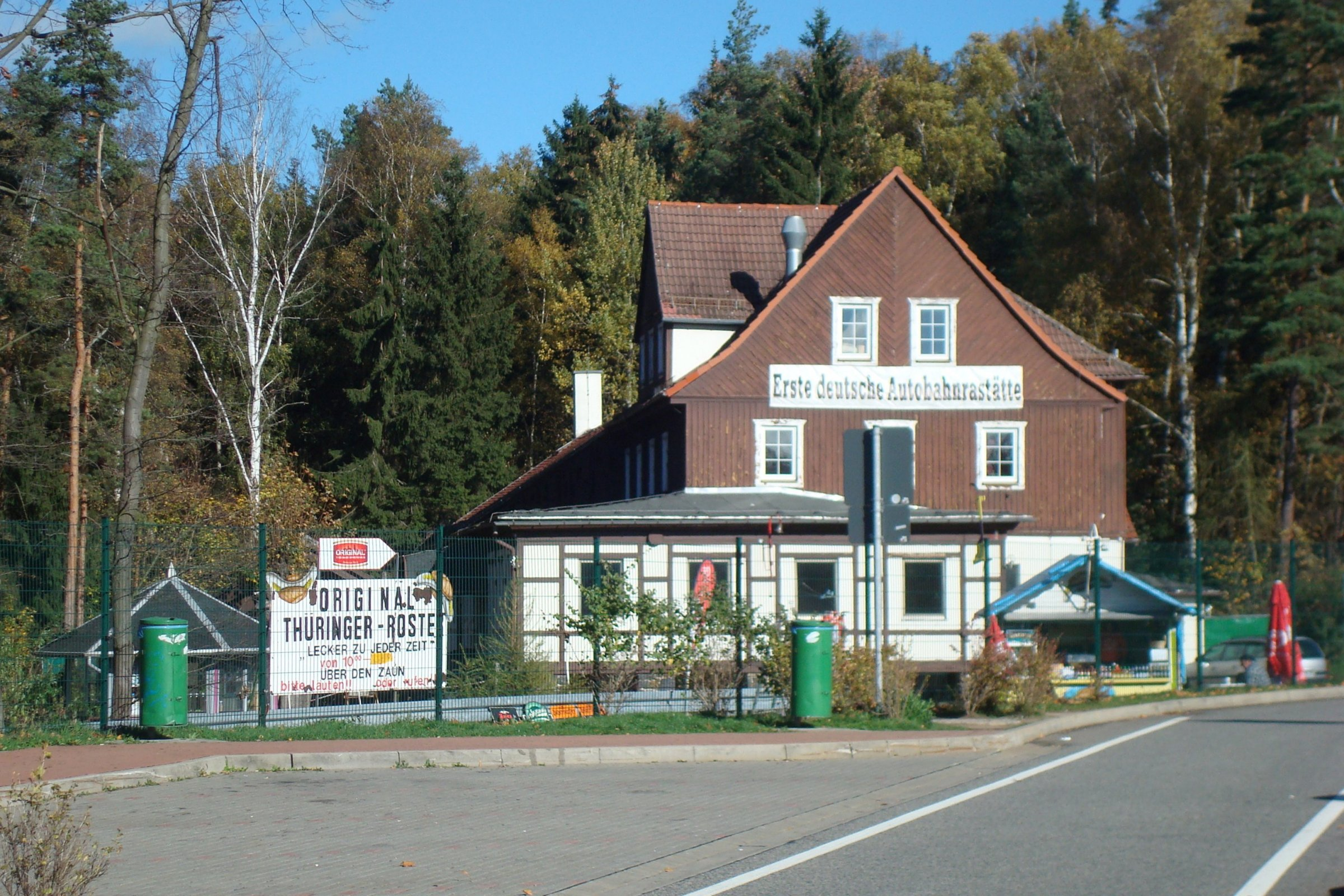 Former motorway restaurant "Rodaborn"